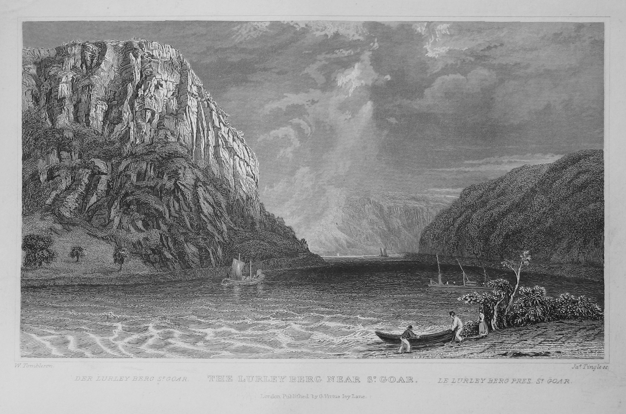 Steel engraving from "Views of the Rhine" by William Tombleson (around 1840): The Loreley rock near St. Goar